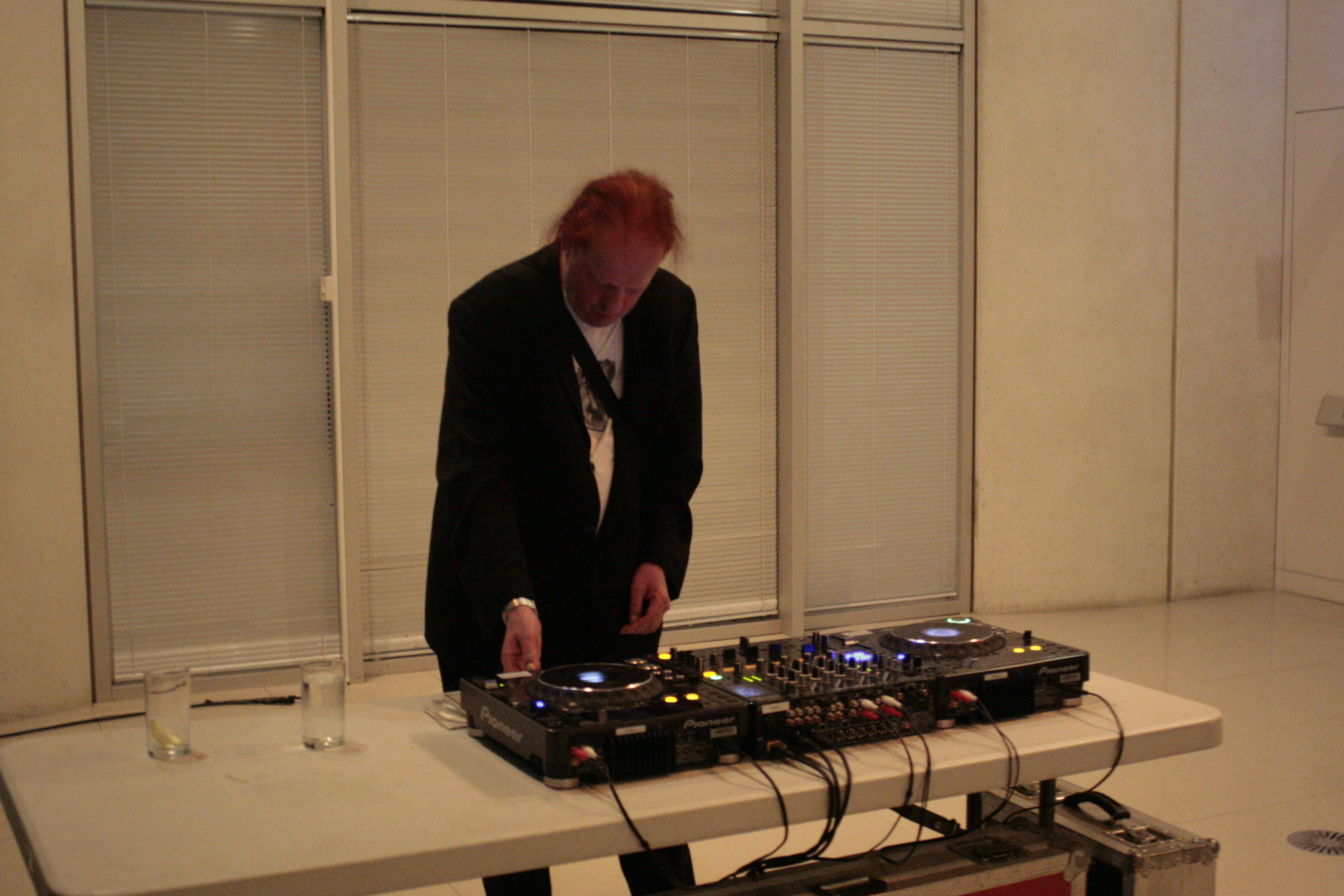 British musician Richard H.Kirk performs as DJ at the "Music For Real Airports" event in Sheffield.